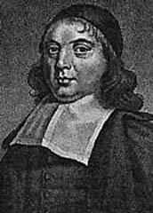 John Flavel (1627-1691)